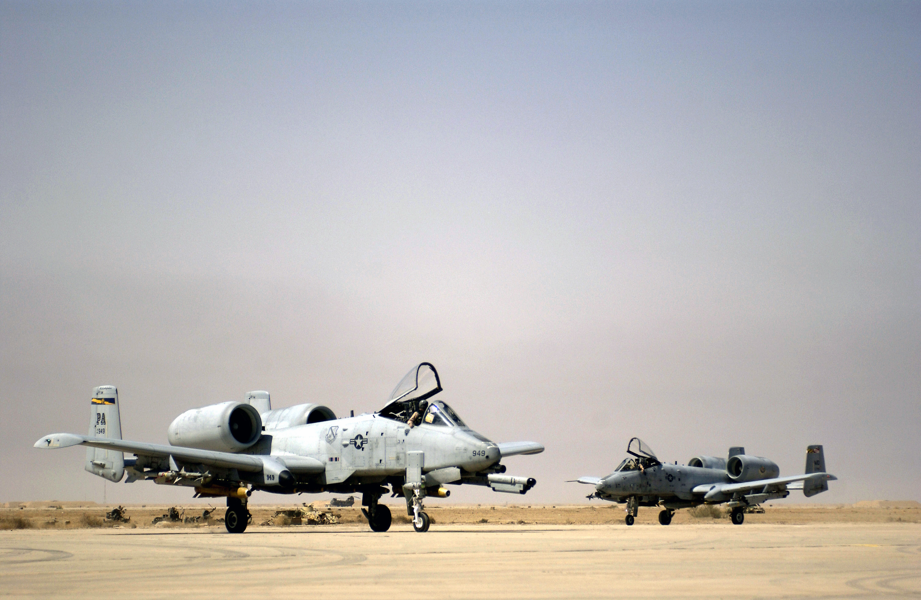 Two U.S. Air Force Fairchild A-10A Thunderbolt II aircraft from the 392nd Air Expeditionary Wing taxi to there parking spaces, at a forward-deployed location in Southern Iraq. The nearer aircraft (s/n 81-0949) was assigned to the 103rd Fighter Squadron, 111th Fighter Wing, Pennylvania Air National Guard, the other (s/n 78-0725) was assigned to the 104th Fighter Squadron, 175th Wing, Maryland Air National Guard.